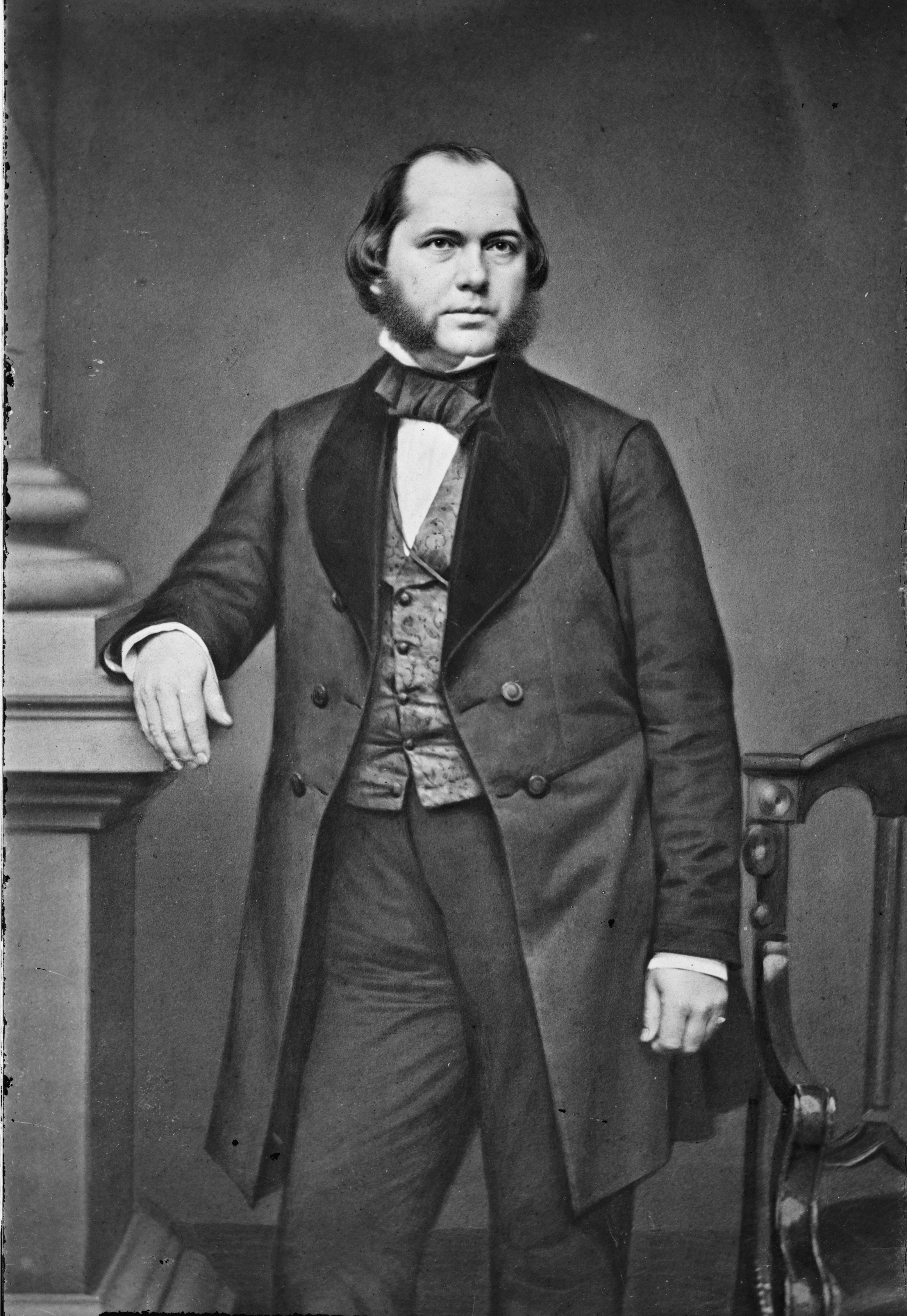 Elijah Ward. Library of Congress description: "Elijah F. Ward of N.Y."